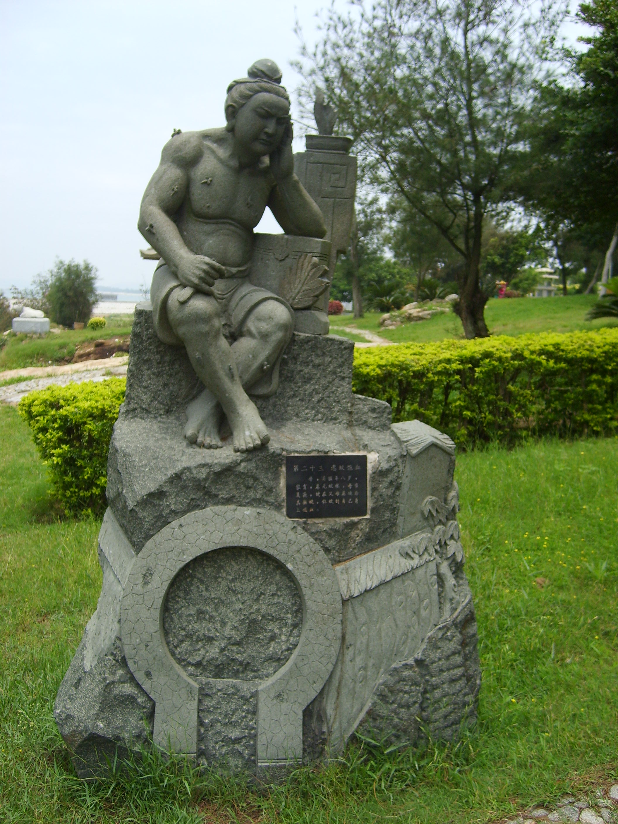 The Twenty-four Filial Exemplars - No. 23